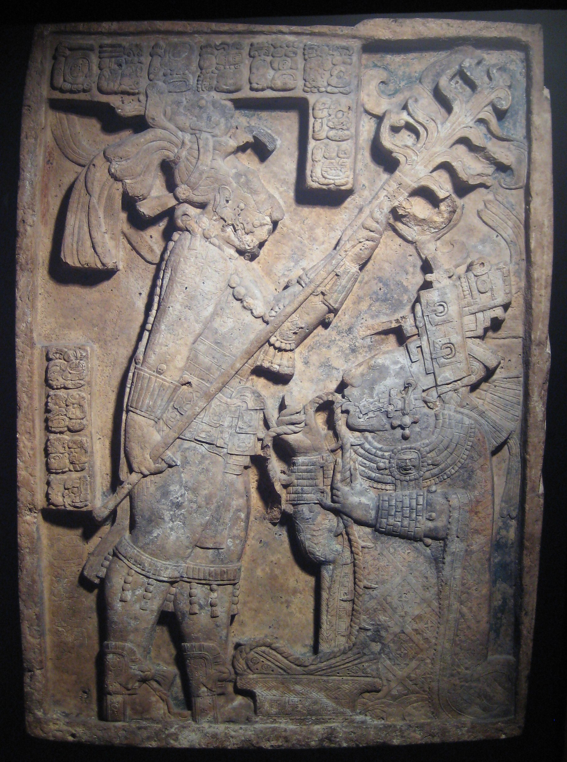 Maya relief of royal blood-letting (Yaxchilan lintel 24), Mexico, about AD 600-900.